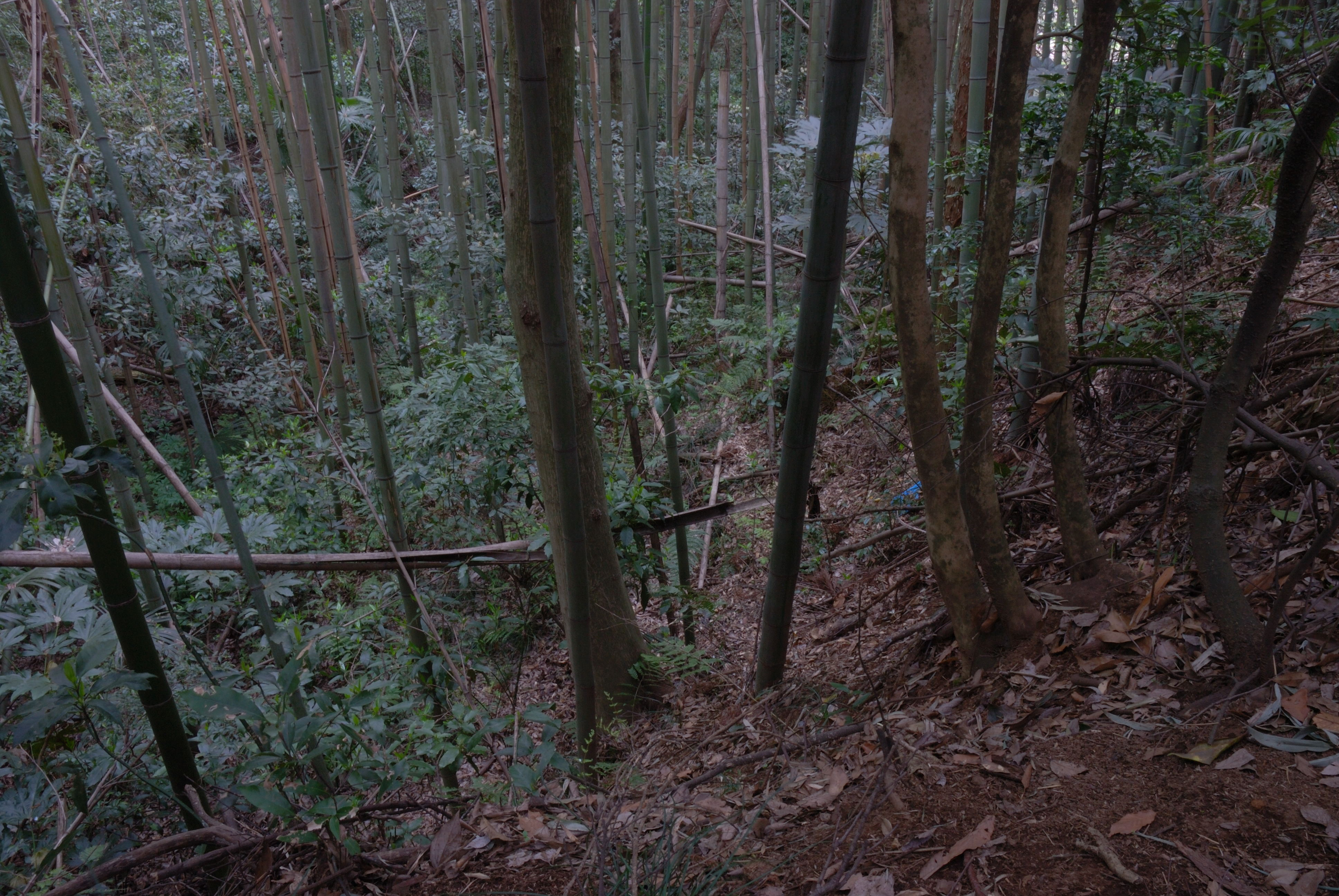 Yonamoto_castle_ninohori.jpg